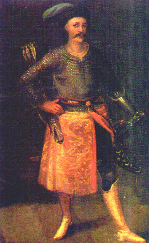 Armoured companion.